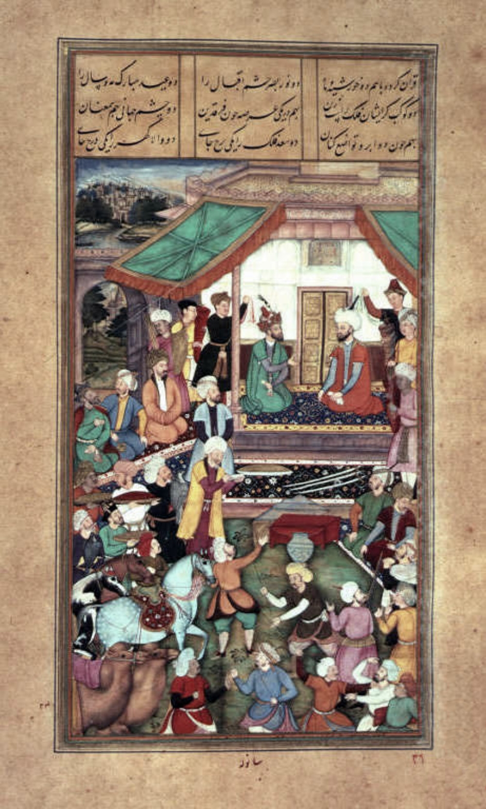 Shah Tahmasp greets the exiled Humayun.